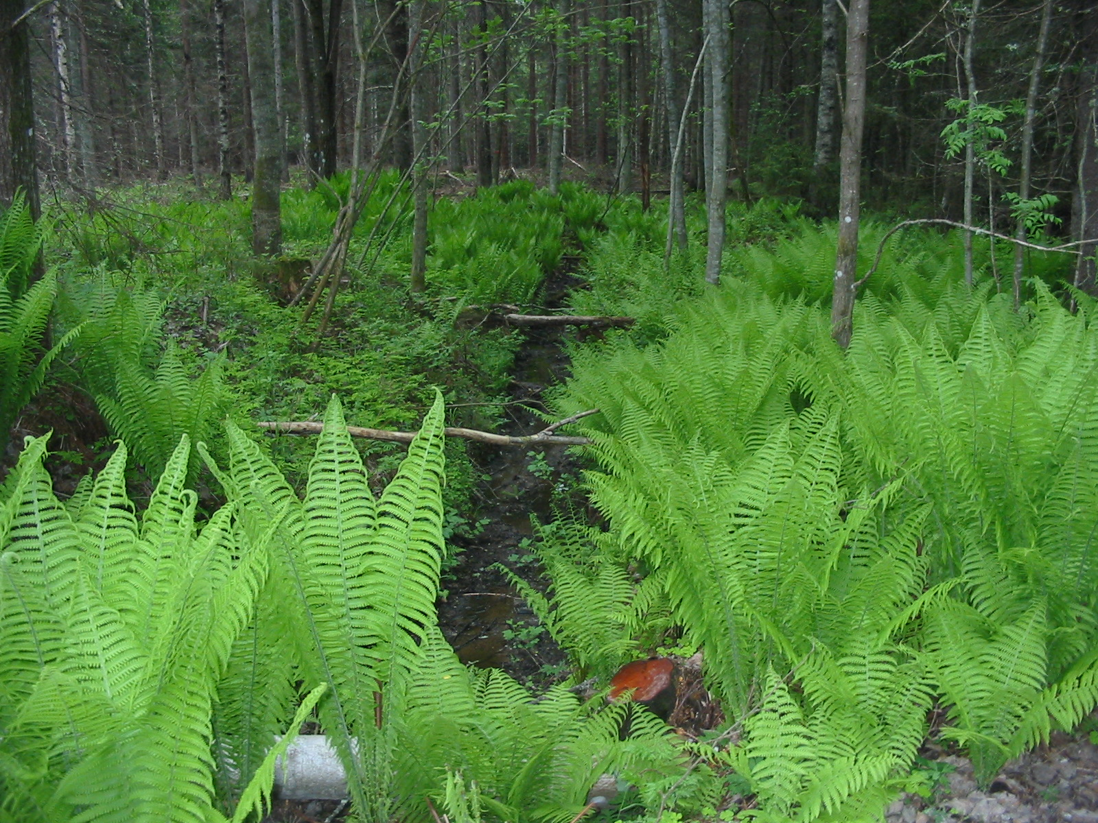 Matteuccia Struthioptheris in Ypäjä, Tavastia Proper, Finland